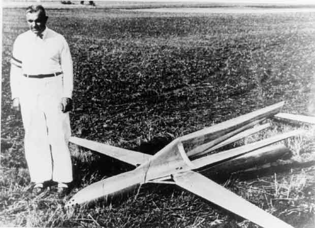 Reinhold Tiling next to the "1. Osnabrücker Raketenflugtag" rocketplane, August 21 1932.